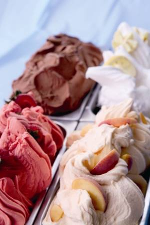 Gelato at CafeMia retail store.